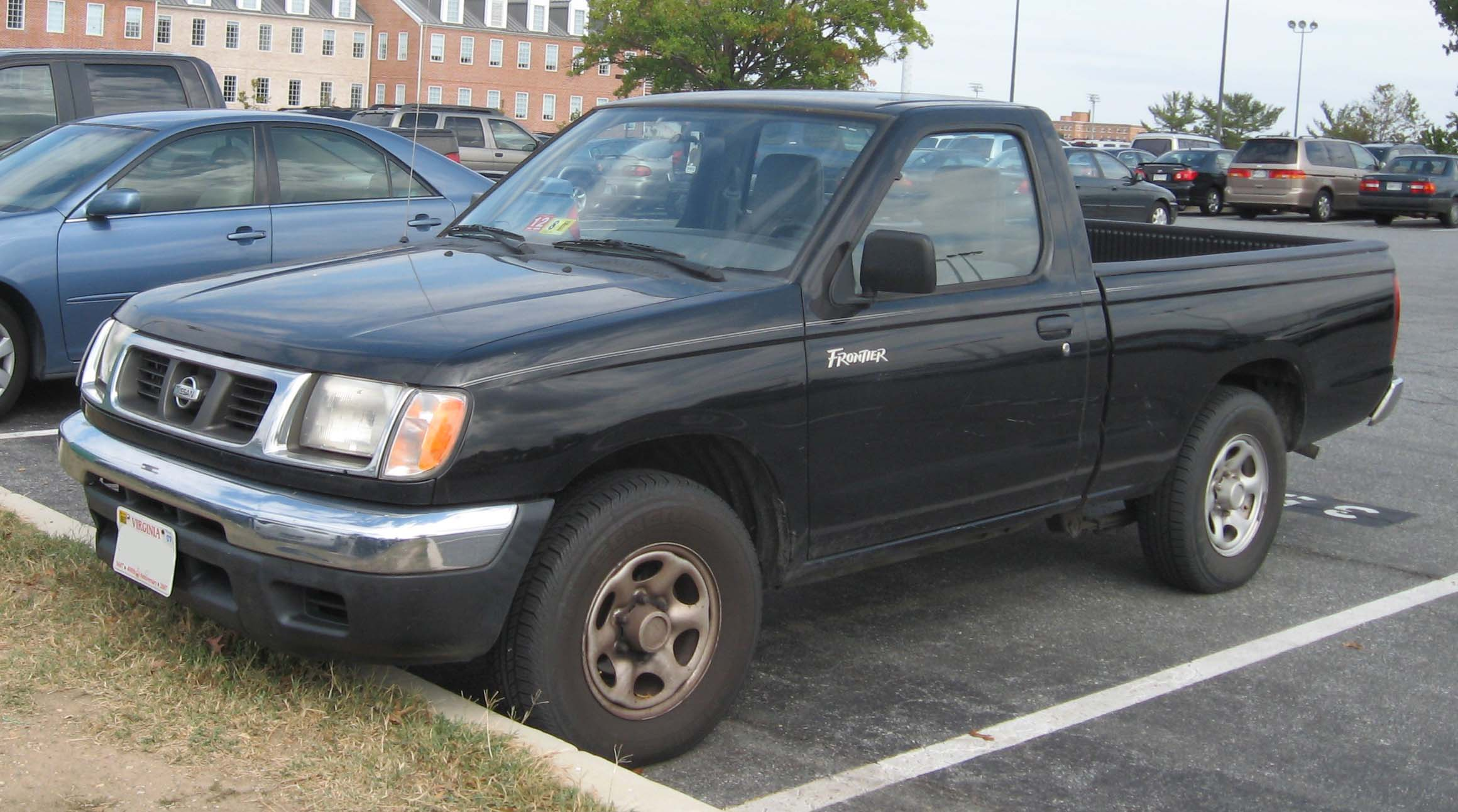 1998-2000 Nissan Frontier photographed in College Park, Maryland, USA.